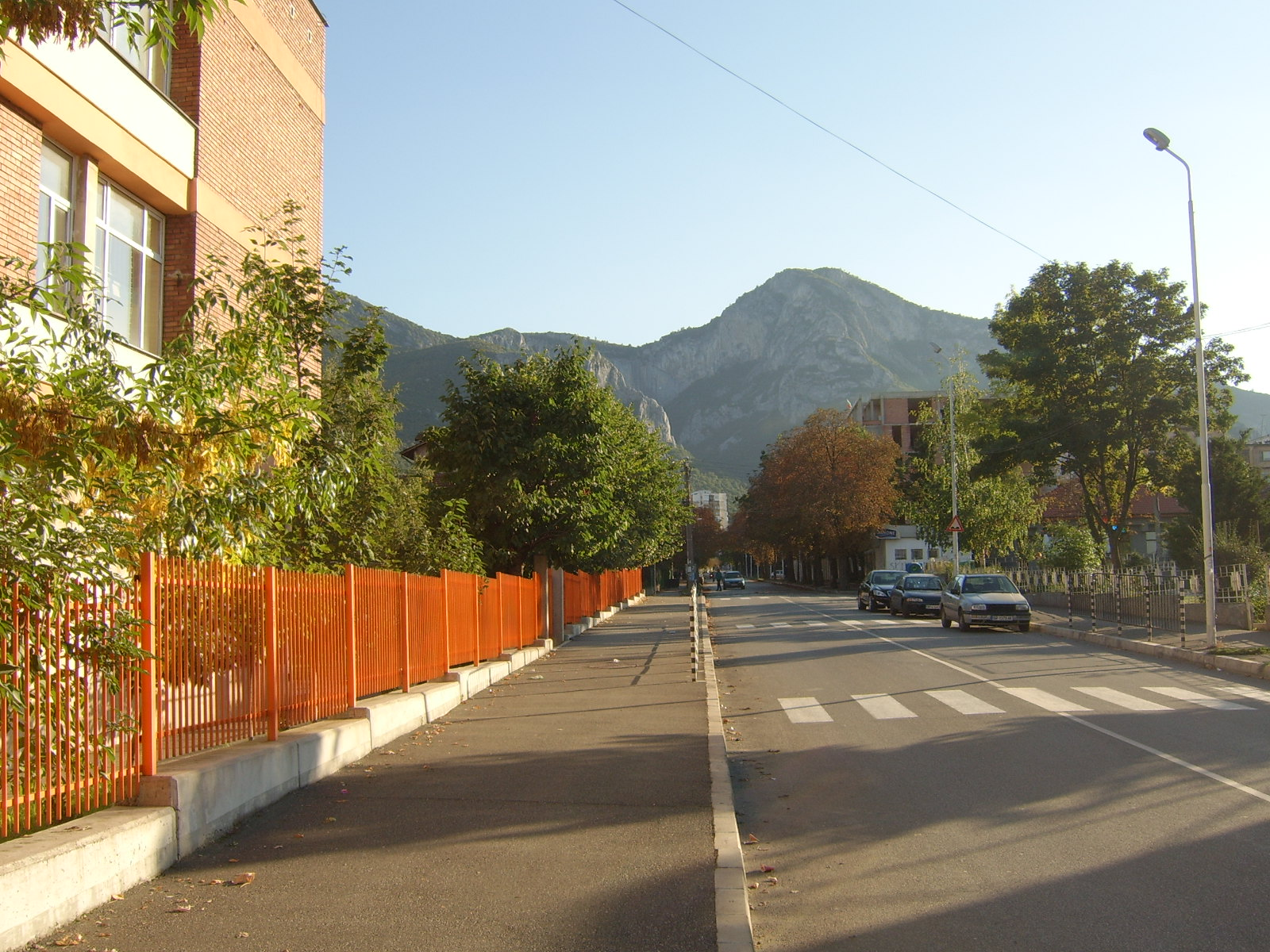 Str Kozloduiski Brjag Vratsa Unknown